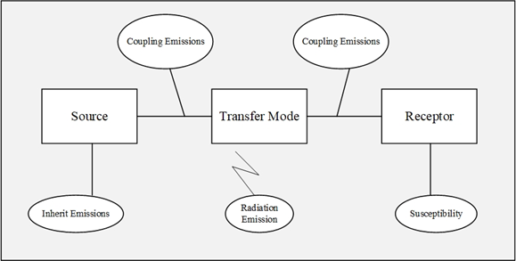 Conducted Emission propagation from Source to Receptor through electrical coupling.